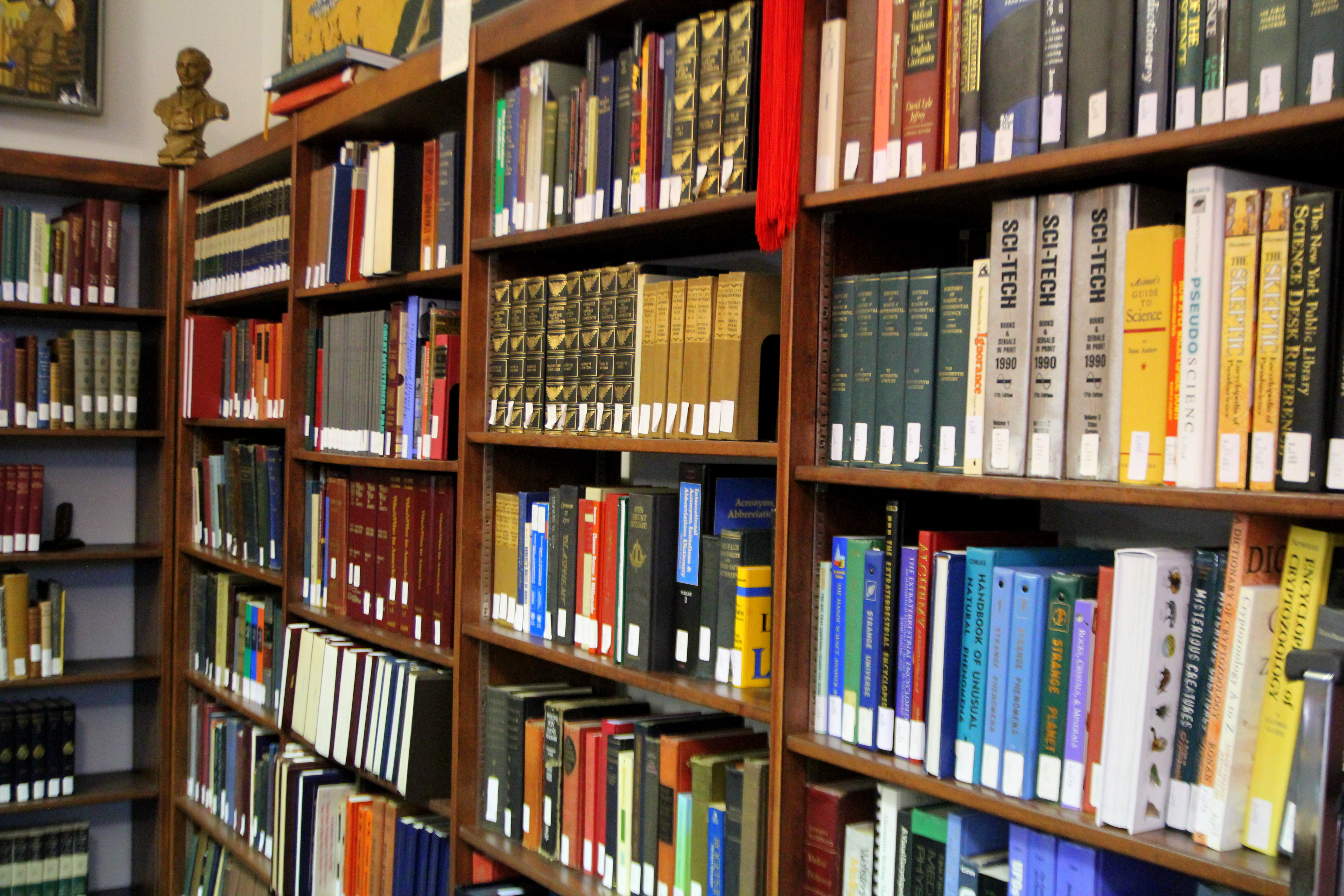 CFI Library